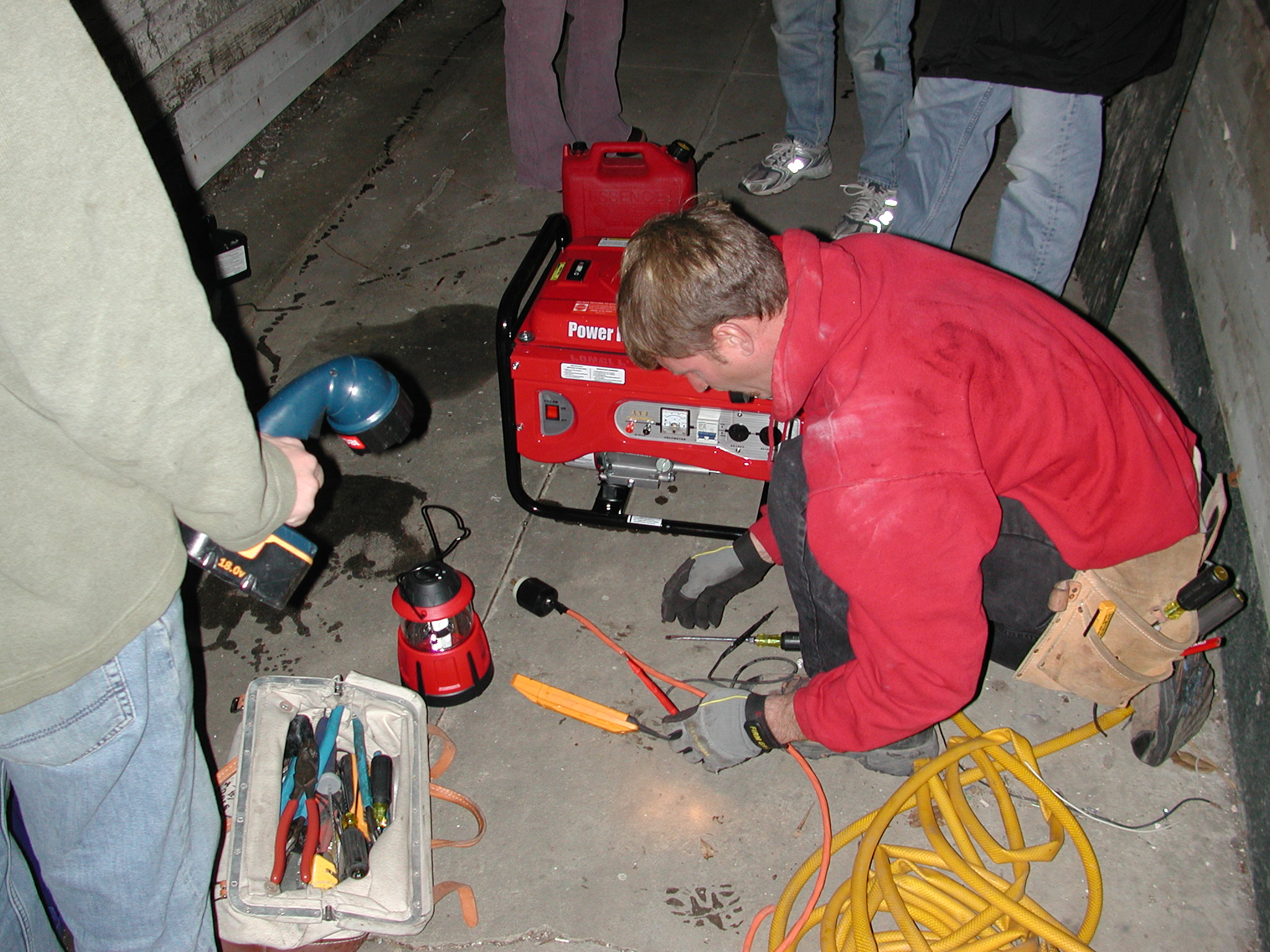 An electrician hooking up a generator to a home's electrical panel.